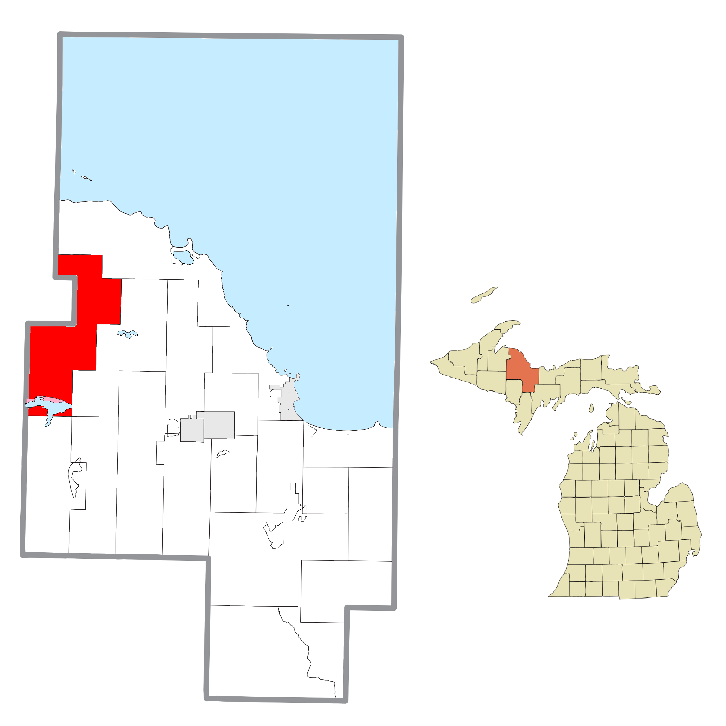 Michigamme, MI